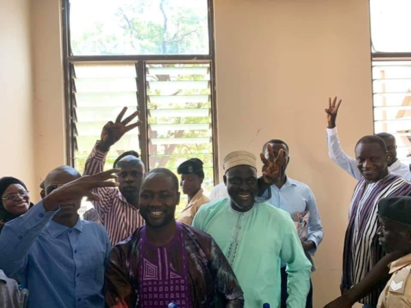 Granted Bail